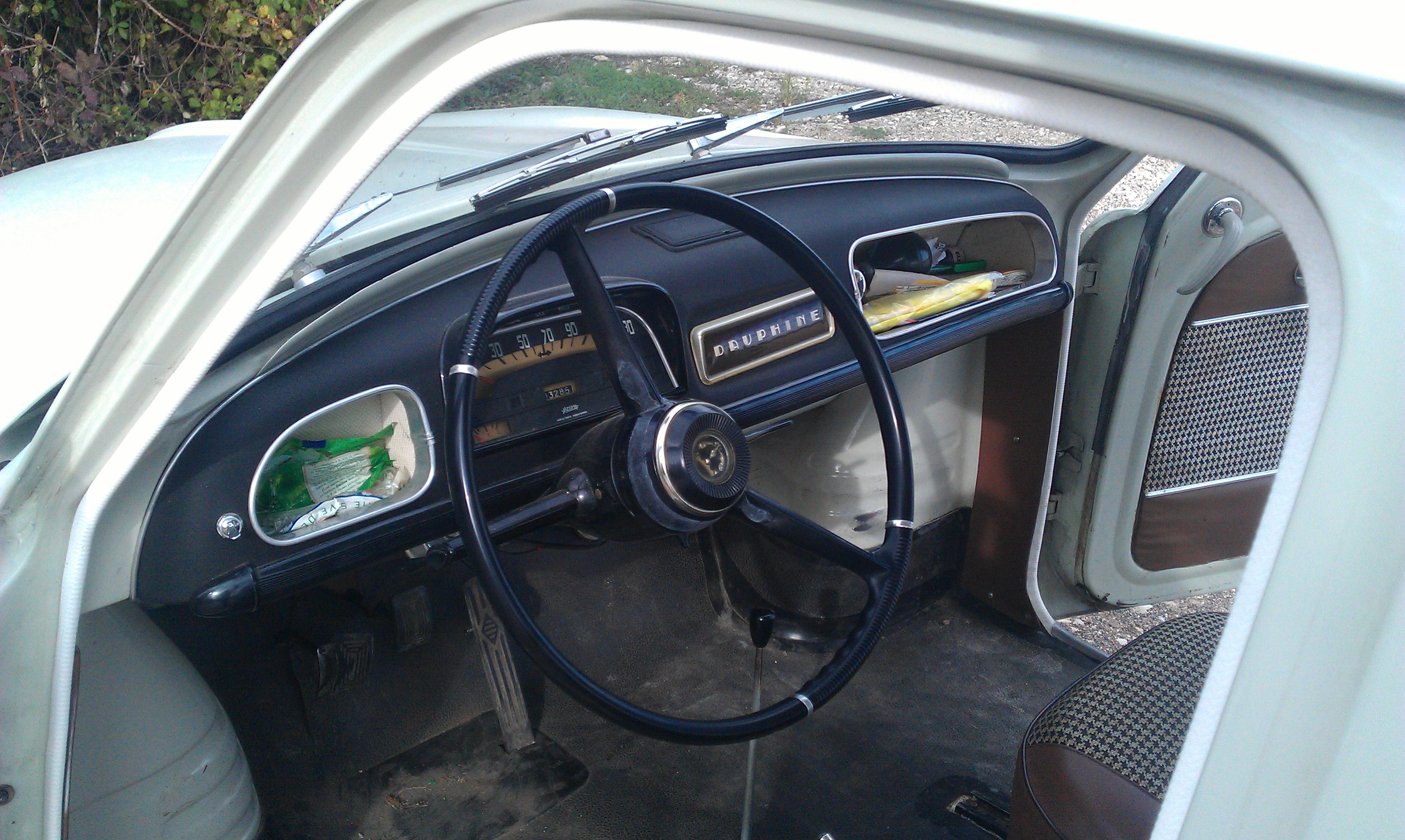 Interior of a Renault Dauphine